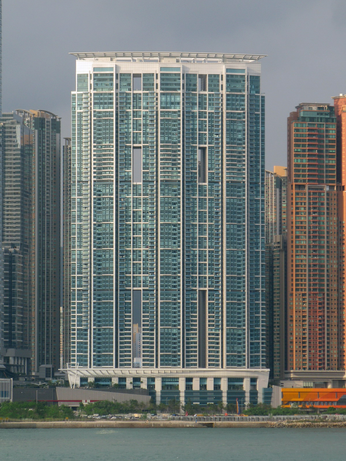 The Harbourside, Union Square Package 4